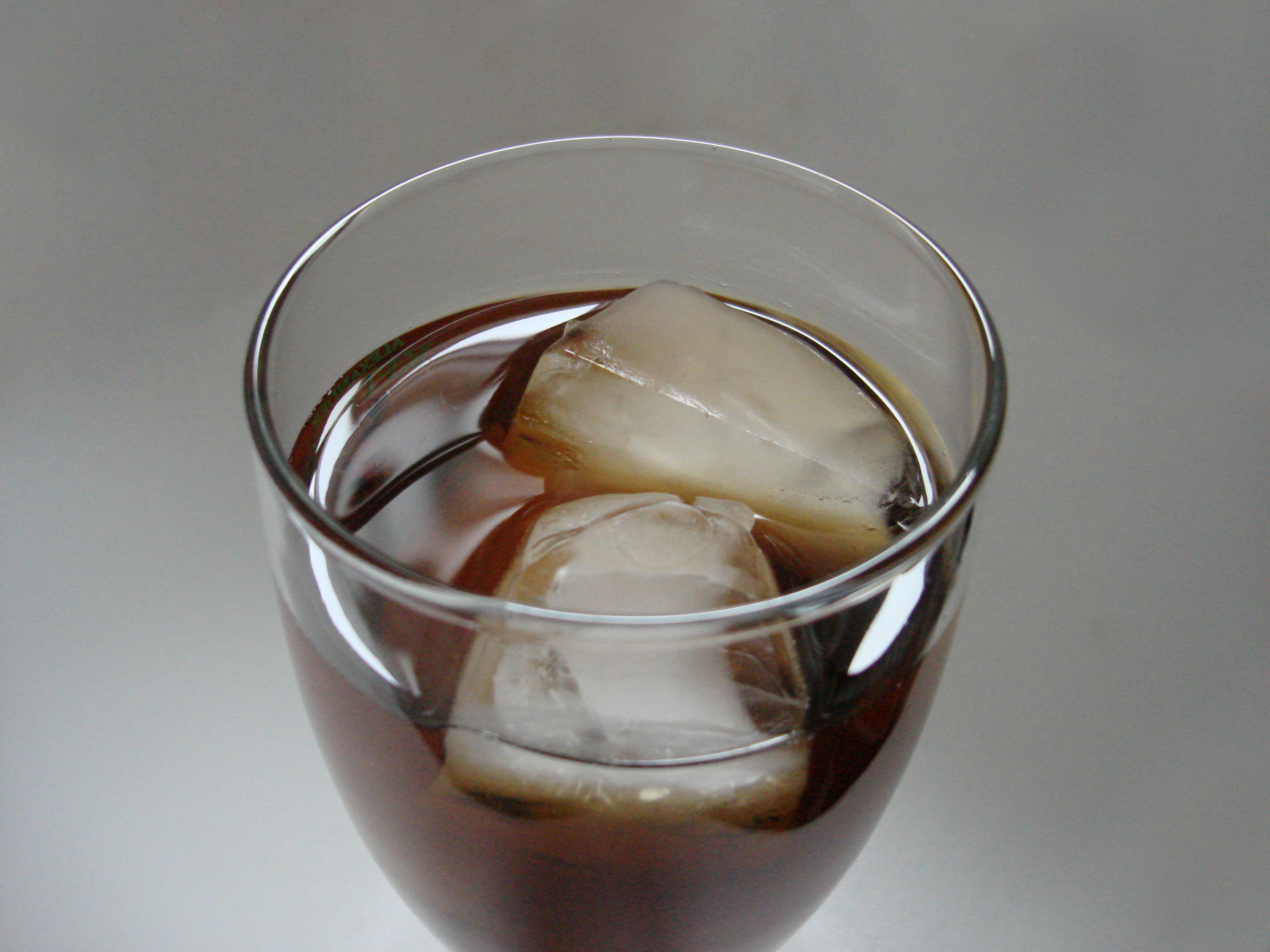 Ice cubes in a glass of iced tea. Lighting consisted of sunlight coming through the kitchen window, background is my kitchen table.